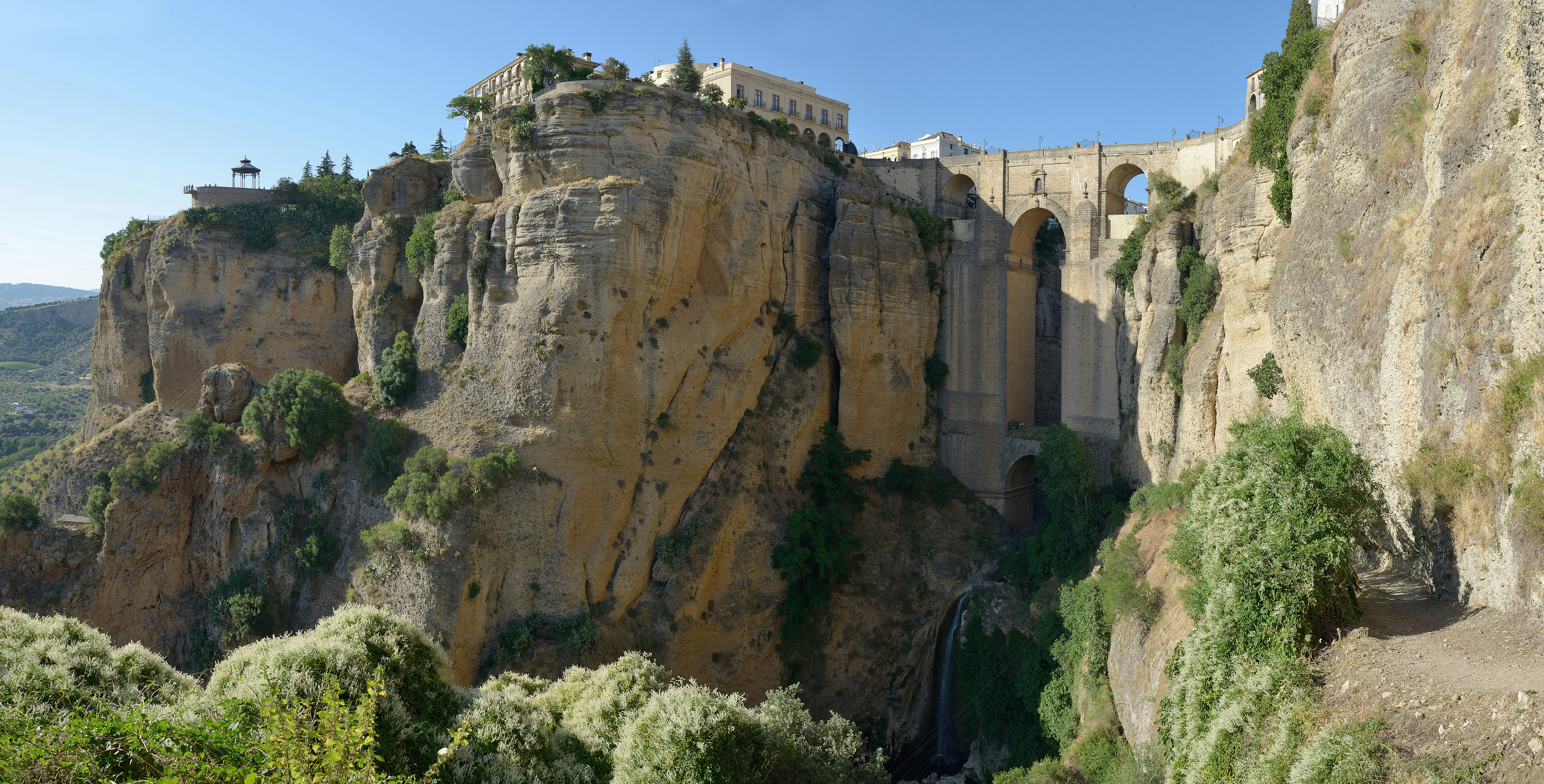 View of the "Ponte Nuevo" bridge in Ronda